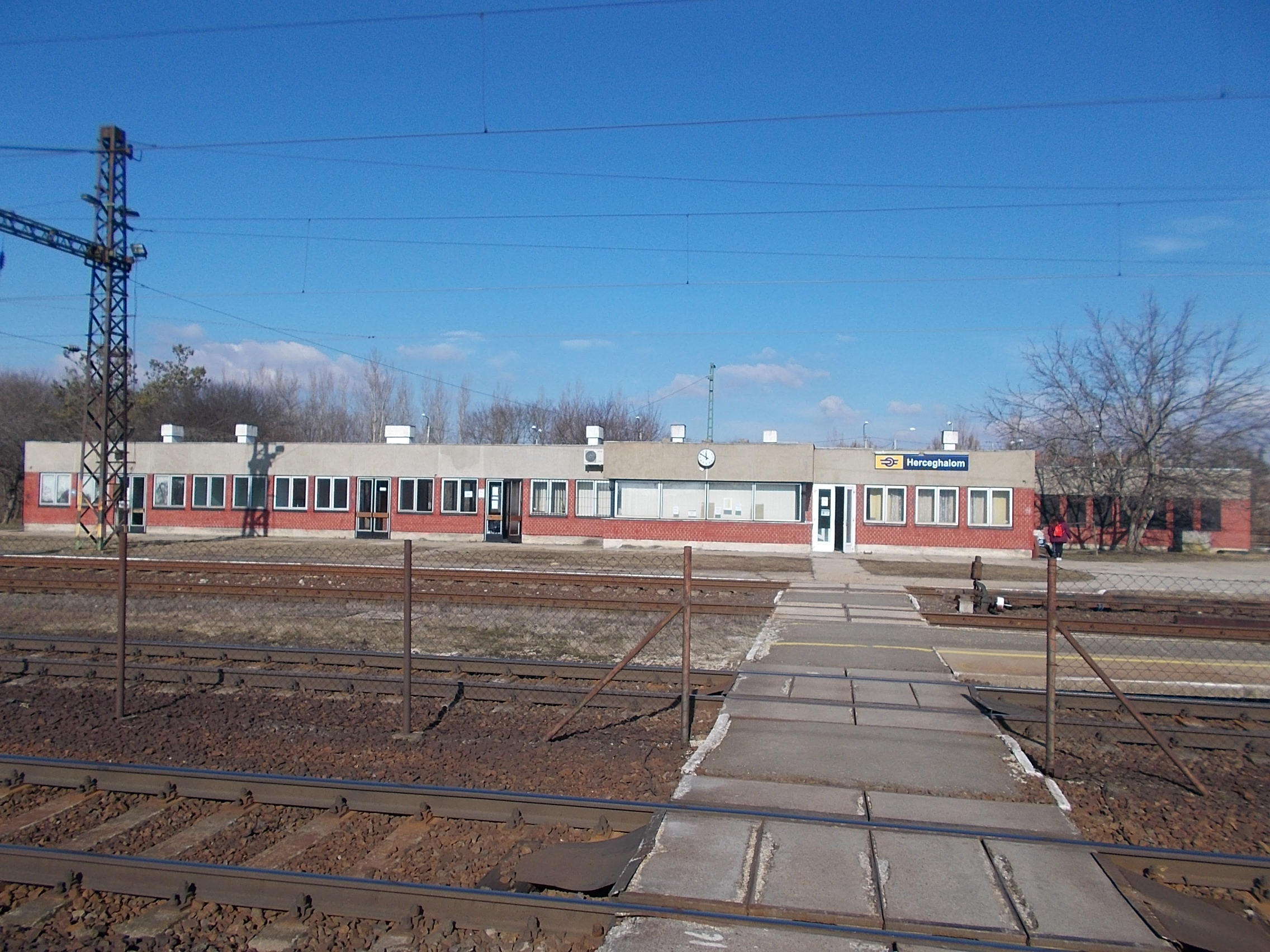 Herceghalom railway station, main building, pedestrian level crossing - Herceghalom, Pest County.